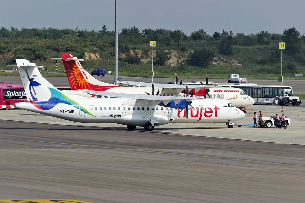 TruJet ATR 72-500, registered VT-TMP, pushing back at Rajiv Gandhi Intl Airport Hyderabad bound for Rajahmundry.